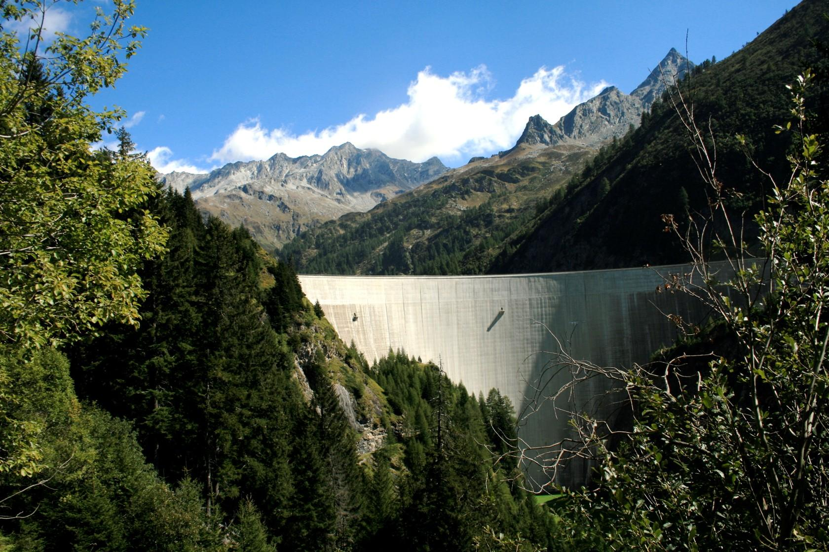 Luzzone dam, canton of Ticino.